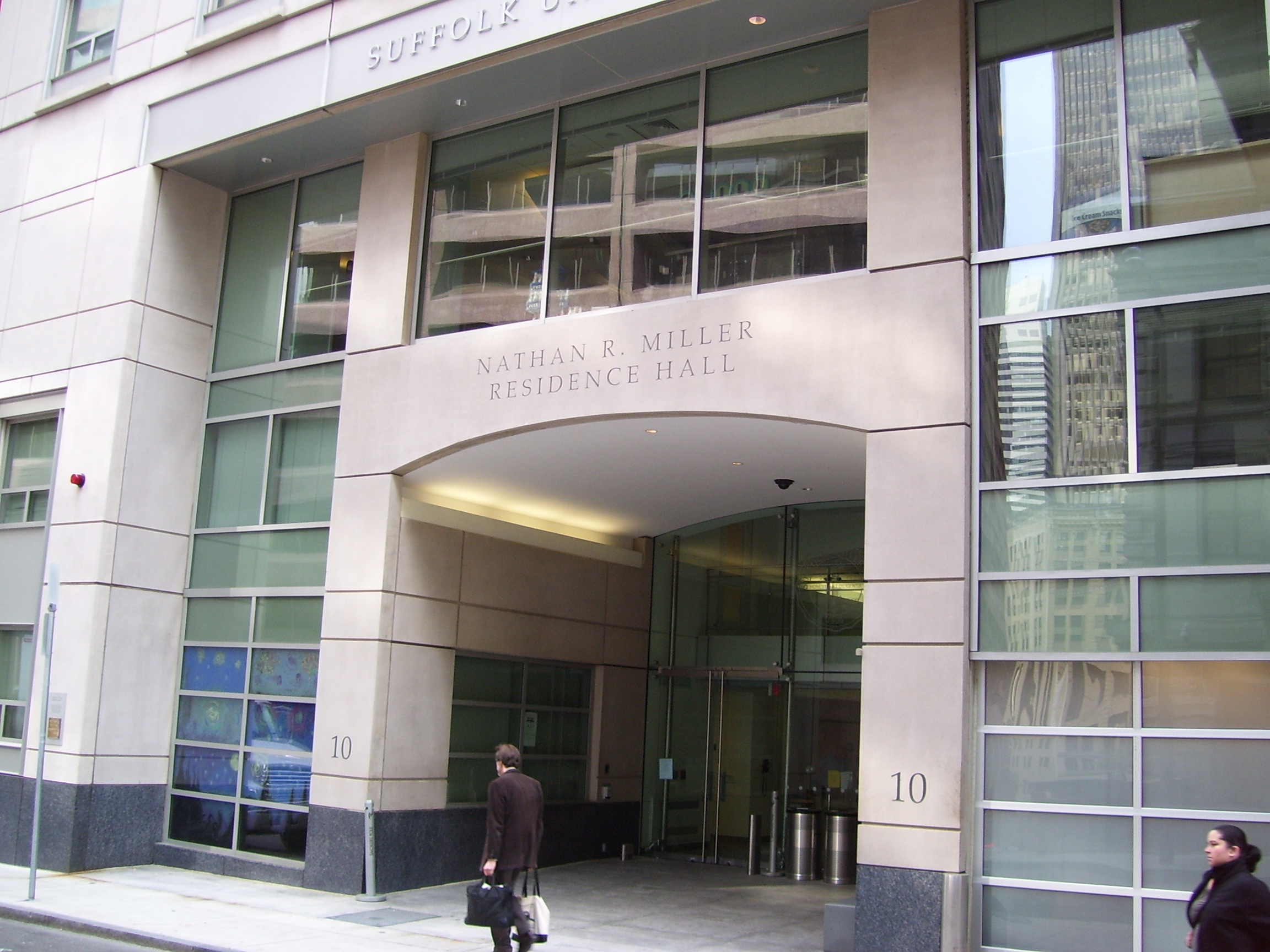 My 2008 photo of Nathan R. Miller dormitory at Suffolk University in Boston, MA.